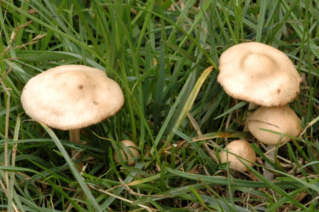 Marasmius oreades from Commanster, Belgium. The determination of the species shown in this picture has been verified.